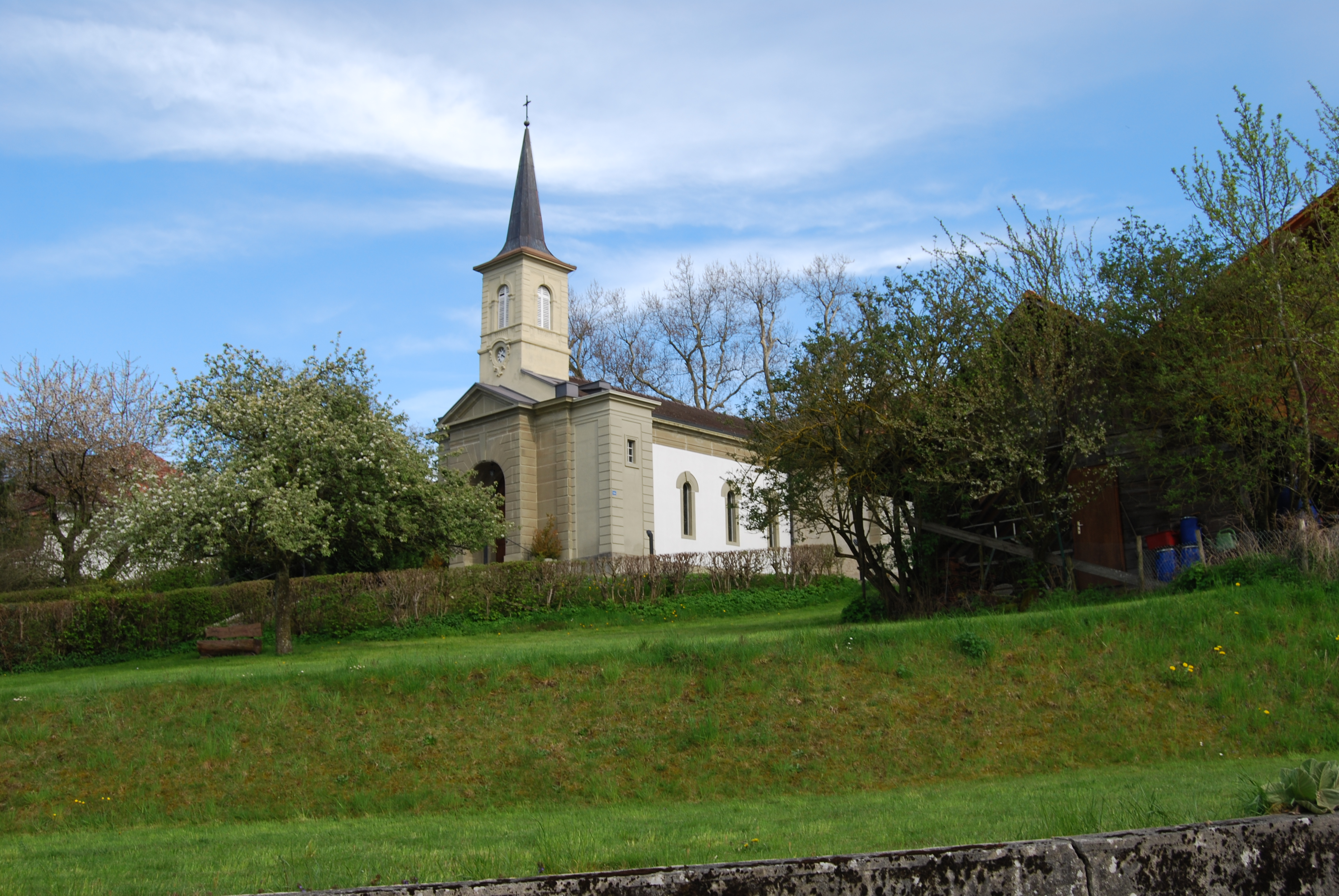 Catholic Church of Wallenried, canton of Fribourg, Switzerland